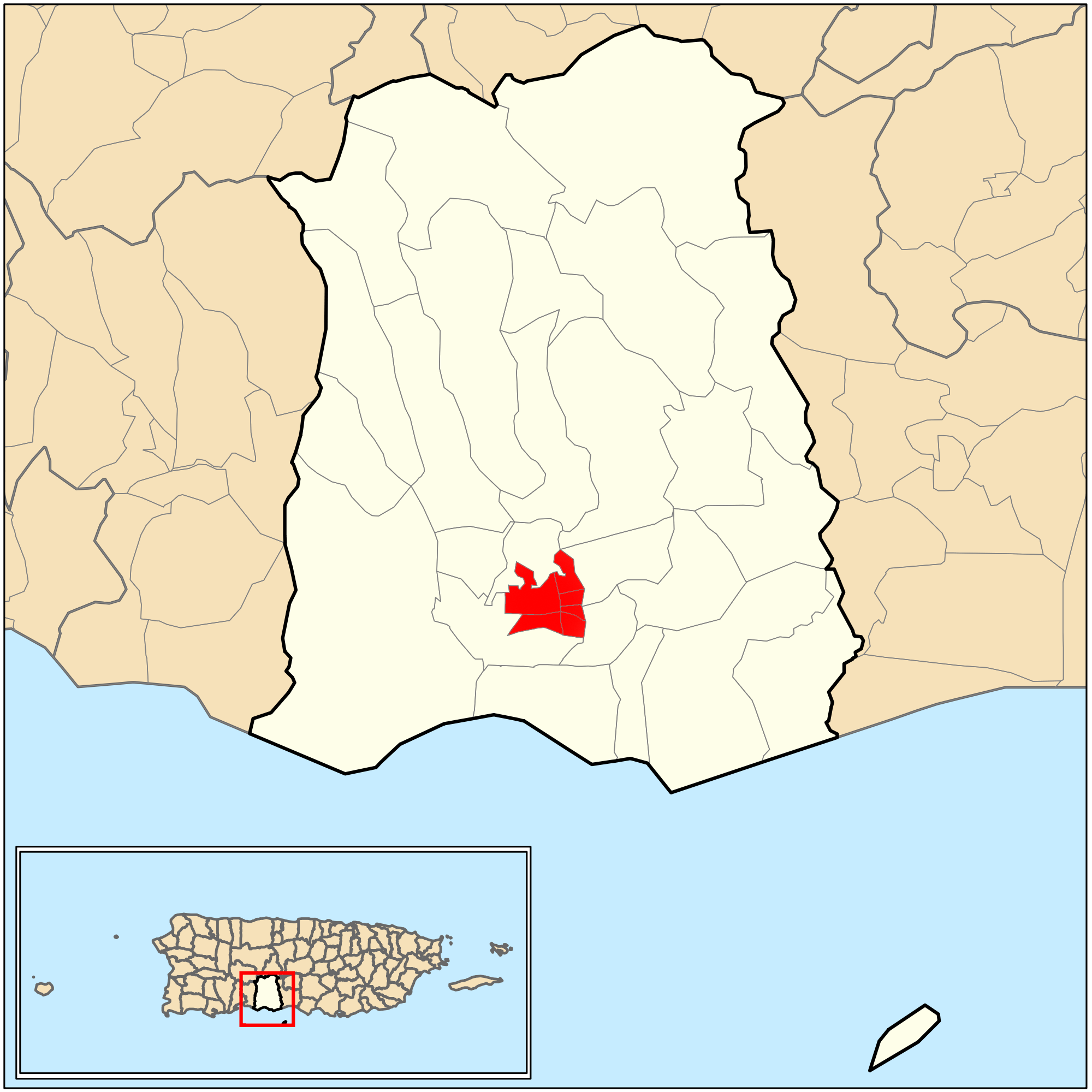 Locator map of the Ponce Historic Zone — within the municipality of Ponce, Puerto Rico.